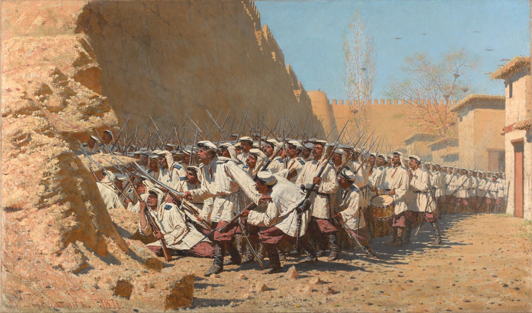 By the Fortress Wall. "Let Them Enter" (1871) by Vasili Vereshchagin. Painting commemorating the capture of Samarkand (in present-day Uzbekistan) by Russian Imperial troops.